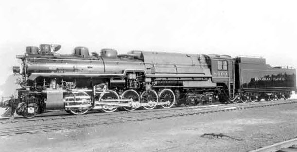 Canadian Pacific Railroad high-pressure locomotive class T4a, No. 8000, built in 1931. Triple expansion with Schmidt-Henschel boiler. Closed ultra-high-pressure circuit only used for heating high pressure circuit: 1350 psi. High pressure circuit: 850 psi used for center cylinder. Low pressure circuit was steam from low pressure boiler and exhaust from center cylinder, which was used for the outer cylinders: 250 psi.